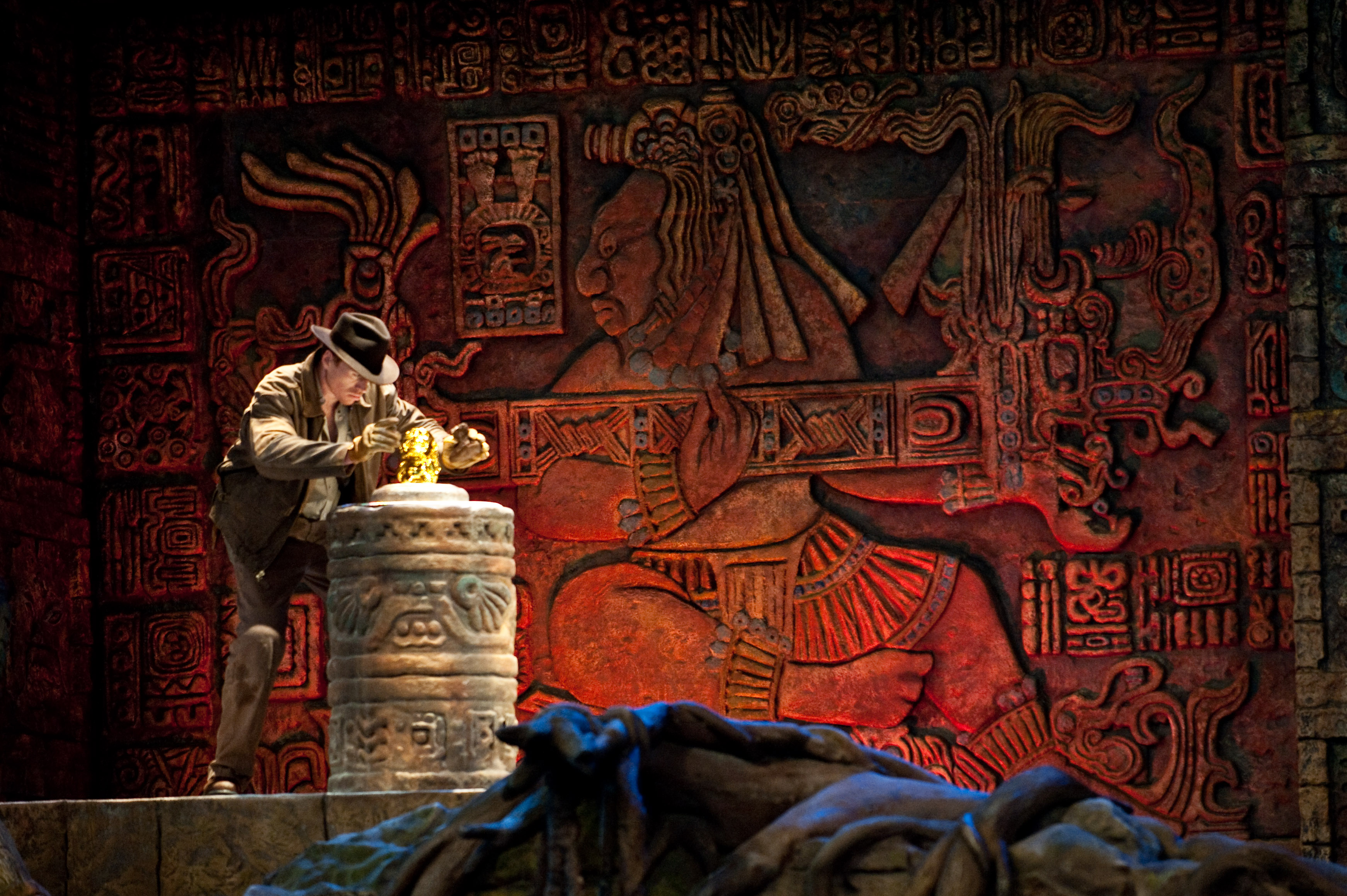 Location: Lake Buena Vista.